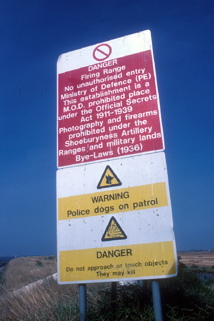 Official Secrets Act warning sign on quayside at Crouch Corner, Foulness, Essex